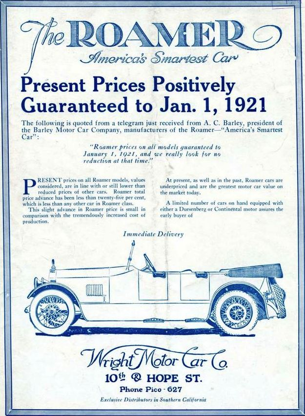 Ad for the Roamer, a automobile model produced by the Barley Motor Car Co., on the back cover of the November 1920 Screenland.